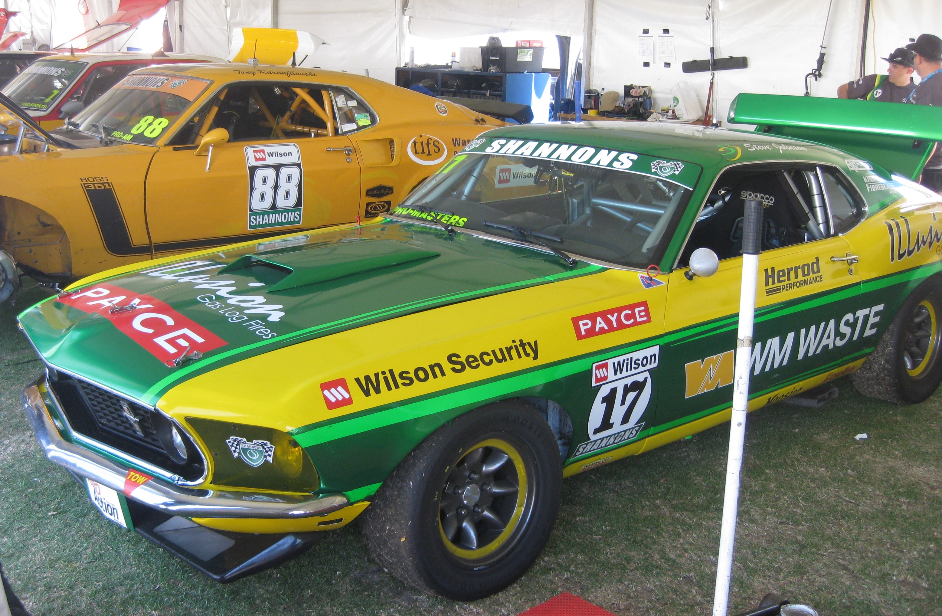 The Ford Mustang of Steven Johnson at the Adelaide Parklands Circuit for the opening round of the 2017 Touring Car Masters